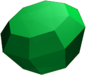 A green emerald, created for articles about Sonic the Hedgehog